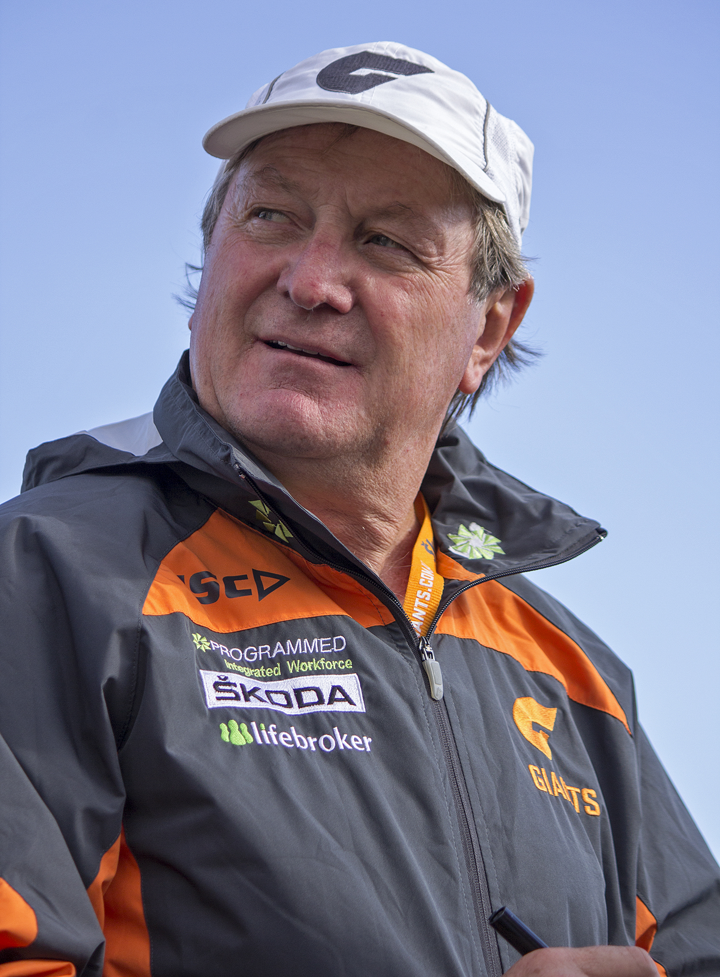 Kevin Sheedy signing autographs at Robertson Oval.